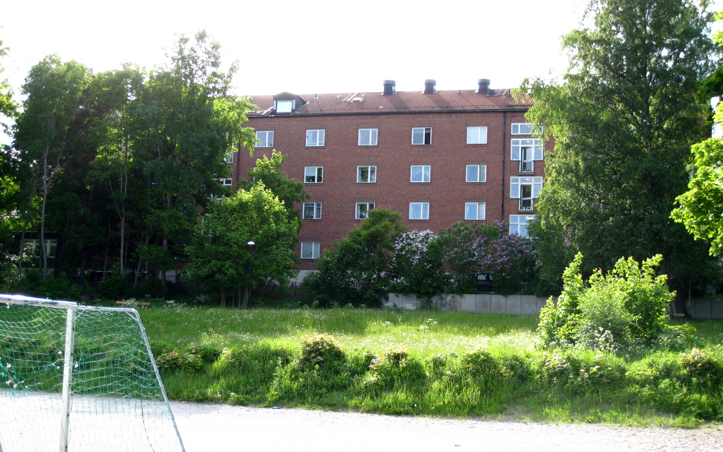 The retirement home Josephinahemmet, Blackeberg, Bromma, western Stockholm, Sweden.